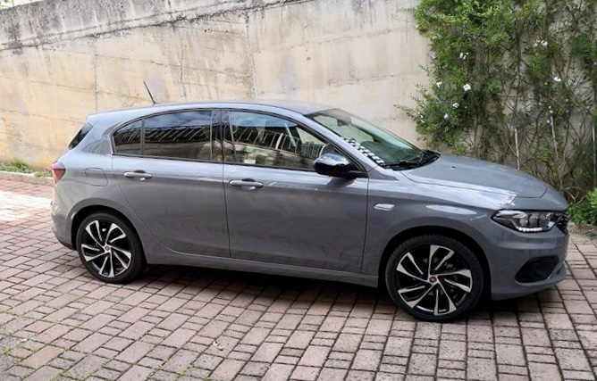 Fiat Tipo S-Design 356 5-porte